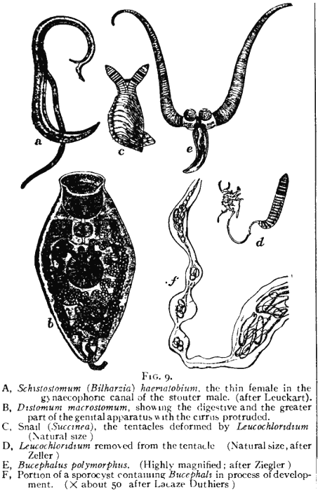 Digenean worms (Platyhelminthes: Trematoda). A – Schistosoma haematobium (Strigeidida: Schistosomatidae), the thin female in the gynaecophore canal of the stouter male. B – Urogonimus macrostomus (Strigeidida: Leucochloridiidae), showing the digastive and the greater part of genital apparatus with the cirrus protruded. C – Succinea snail with tentacles deformed by Leucochloridium (Strigeidida: Leucochloridiidae). D – Leucochloridium' removed from the tentacle. E – Buchephalus polymorphus cercaria with the anteroir end to bottom (Strigeidida: Bucephalidae). F – Portion of a Bucephalus sporocyst containing developing cercariae.